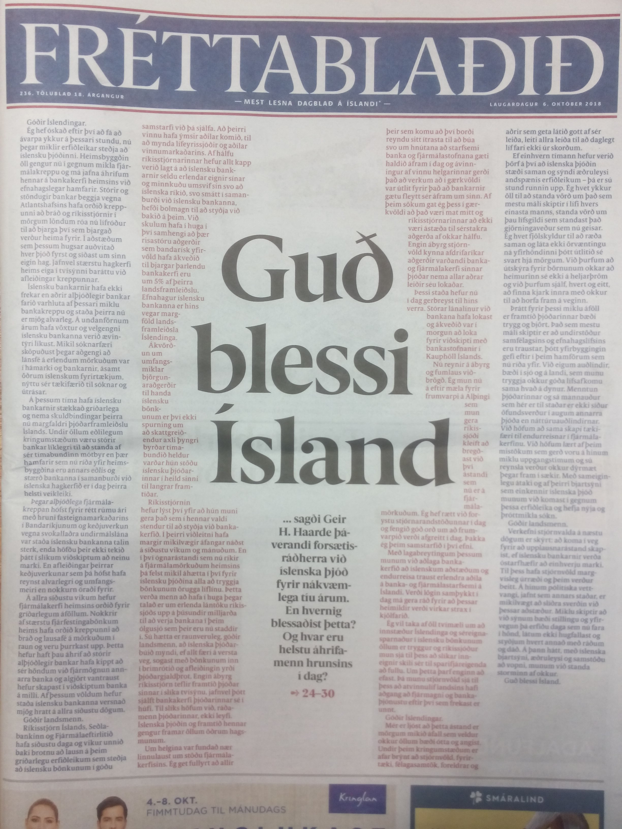 Front page of Fréttablaðið, year 18, no 238, 6 October 2018, reprinting Geir Haarde's 'Guð Blessi Ísland' speech of 6 October 2008 in the colours of the Icelandic flag.